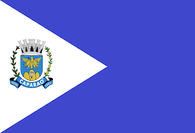 Flags of the city of Caparaó, Minas Gerais, Brazil.